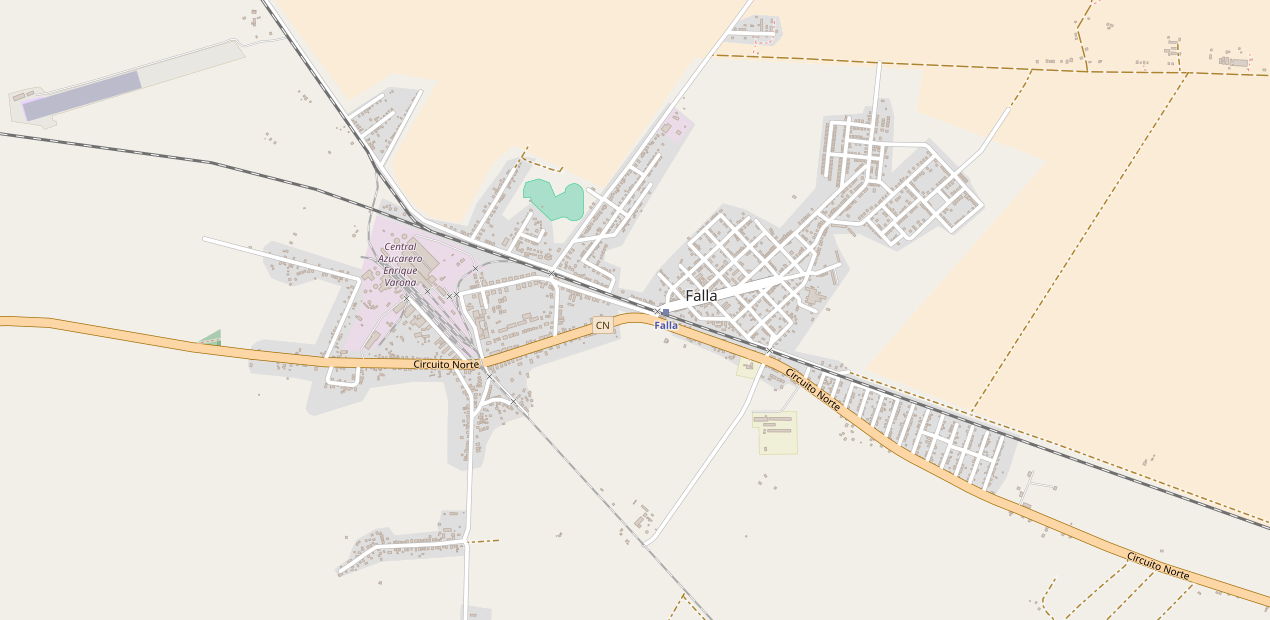 This map may be incomplete, and may contain errors. Don't rely solely on it for navigation.